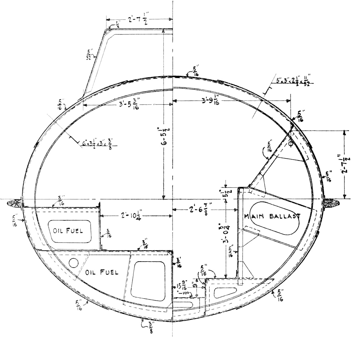 A midship section of the Danish submarine Havmanden. Havmanden was of the Danish H-class submarines. During World War I, Austria-Hungary built four submarines of the U-20 class based on the H-class